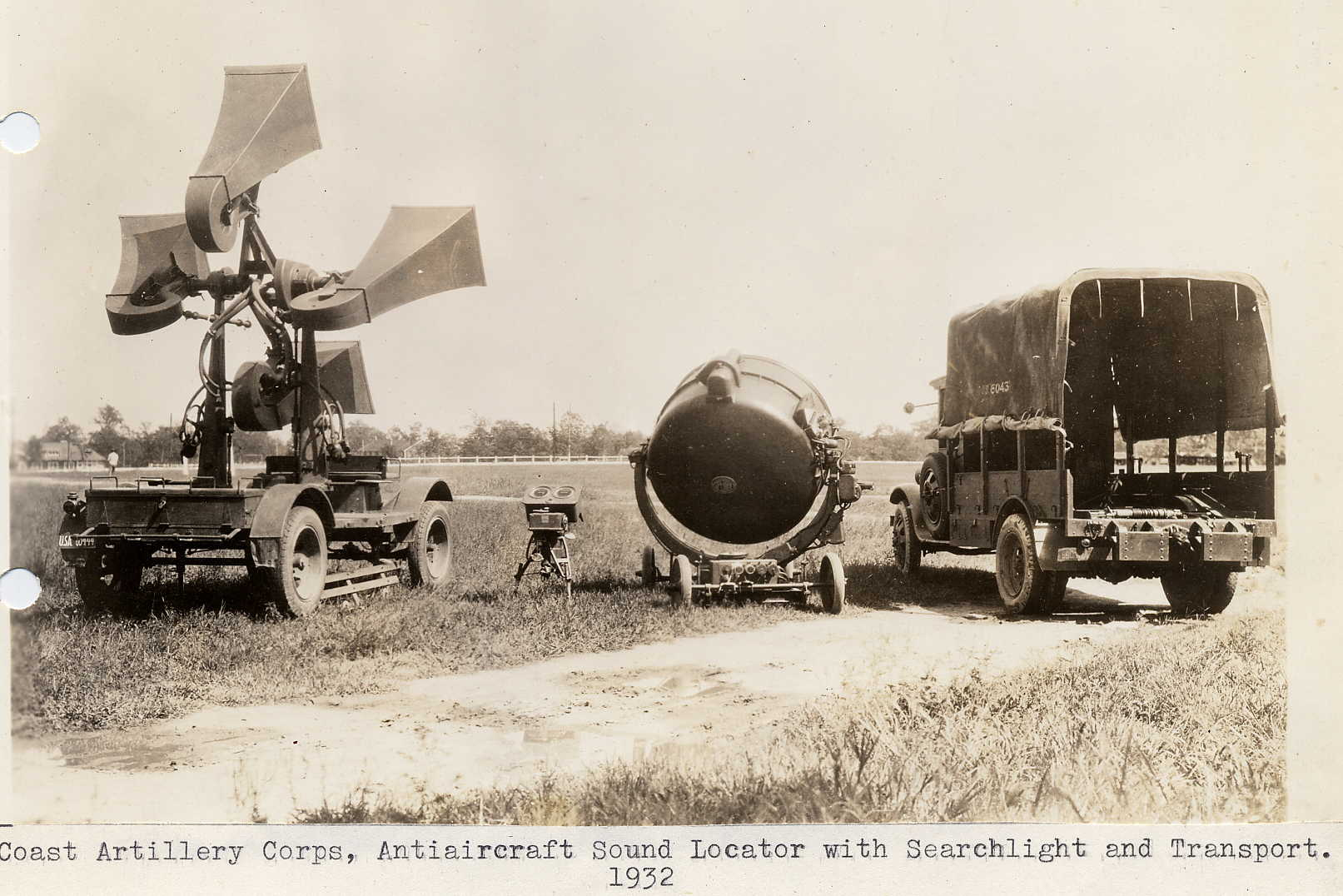 US Army aircraft sound locator apparatus and searchlight, 1932. Before radar was developed in World War 2, acoustic horns like this were used to detect the sound of approaching enemy aircraft at a distance. Stereo horns, one attached to each ear, allowed the observer to judge the direction of the aircraft. The horns were used in pairs; the horizontal pair to determine direction and the vertical pair to determine elevation.